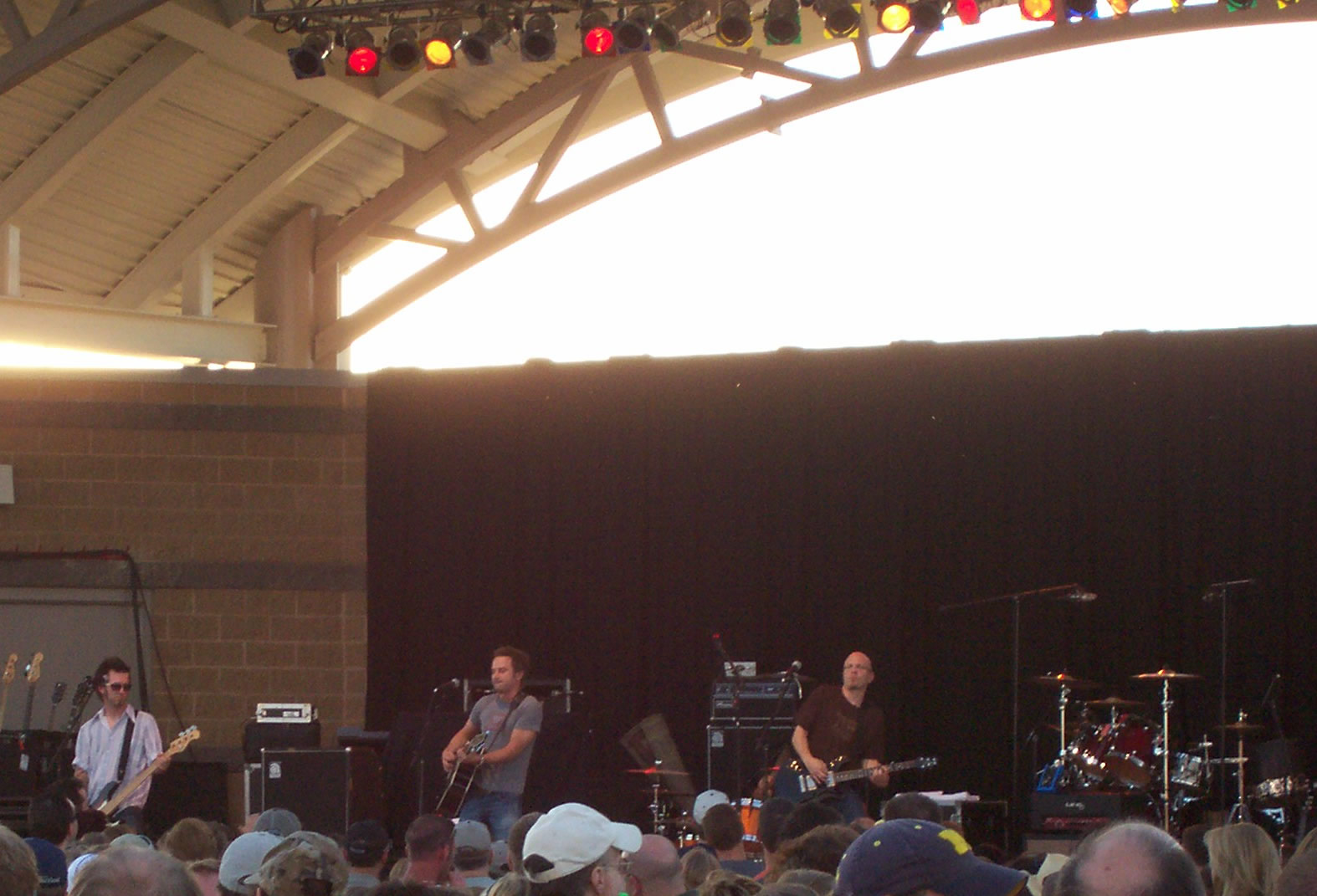 Image of the band "The Gufs" taken at Waterfest at Oshkosh, Wisconsin, USA